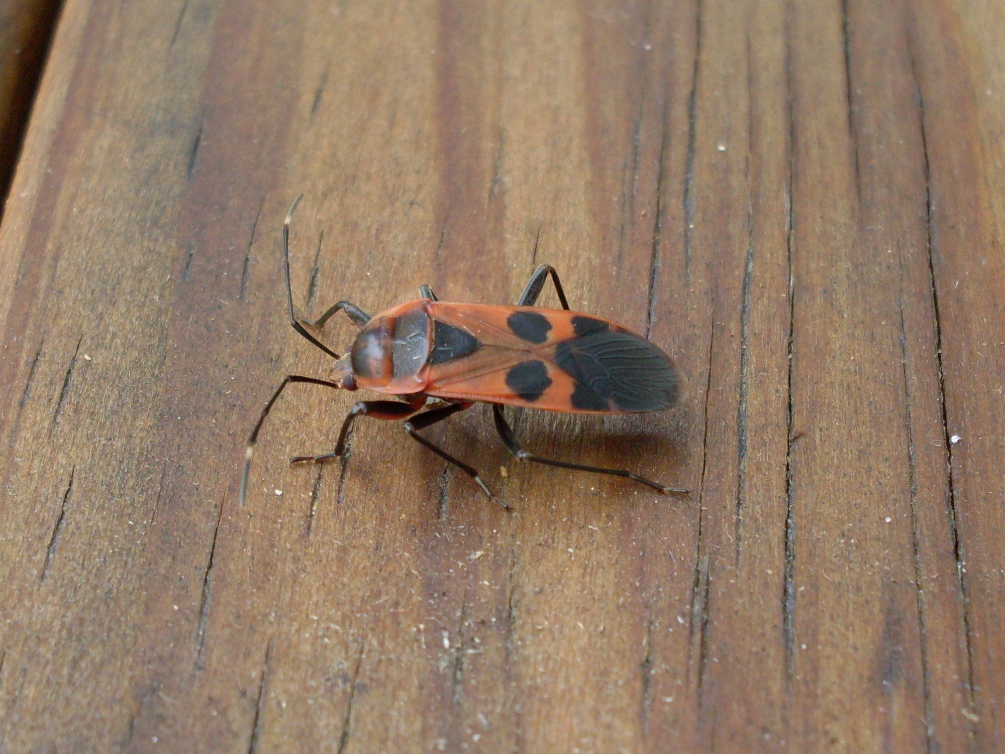 Physopelta gutta (Hemiptera: Heteroptera: Largidae). Gerroa NSW Australia, February 2011.